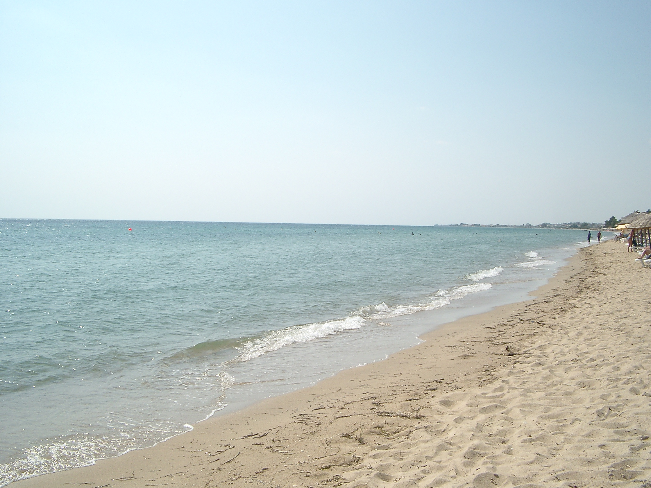 Beach of Nea Moudania, Chalicidice, Greece